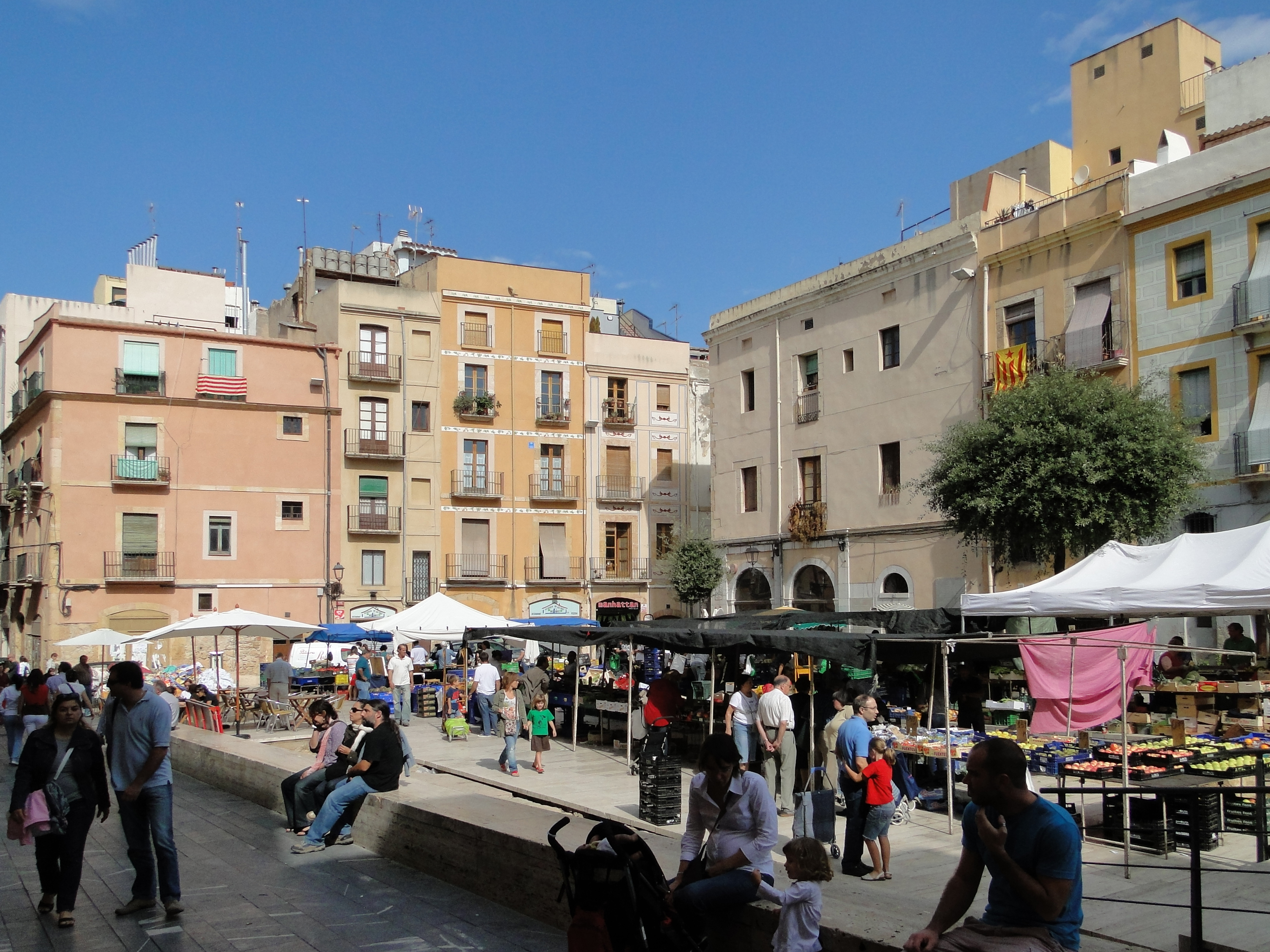 Plaza del Forum, Tarragona, Spain